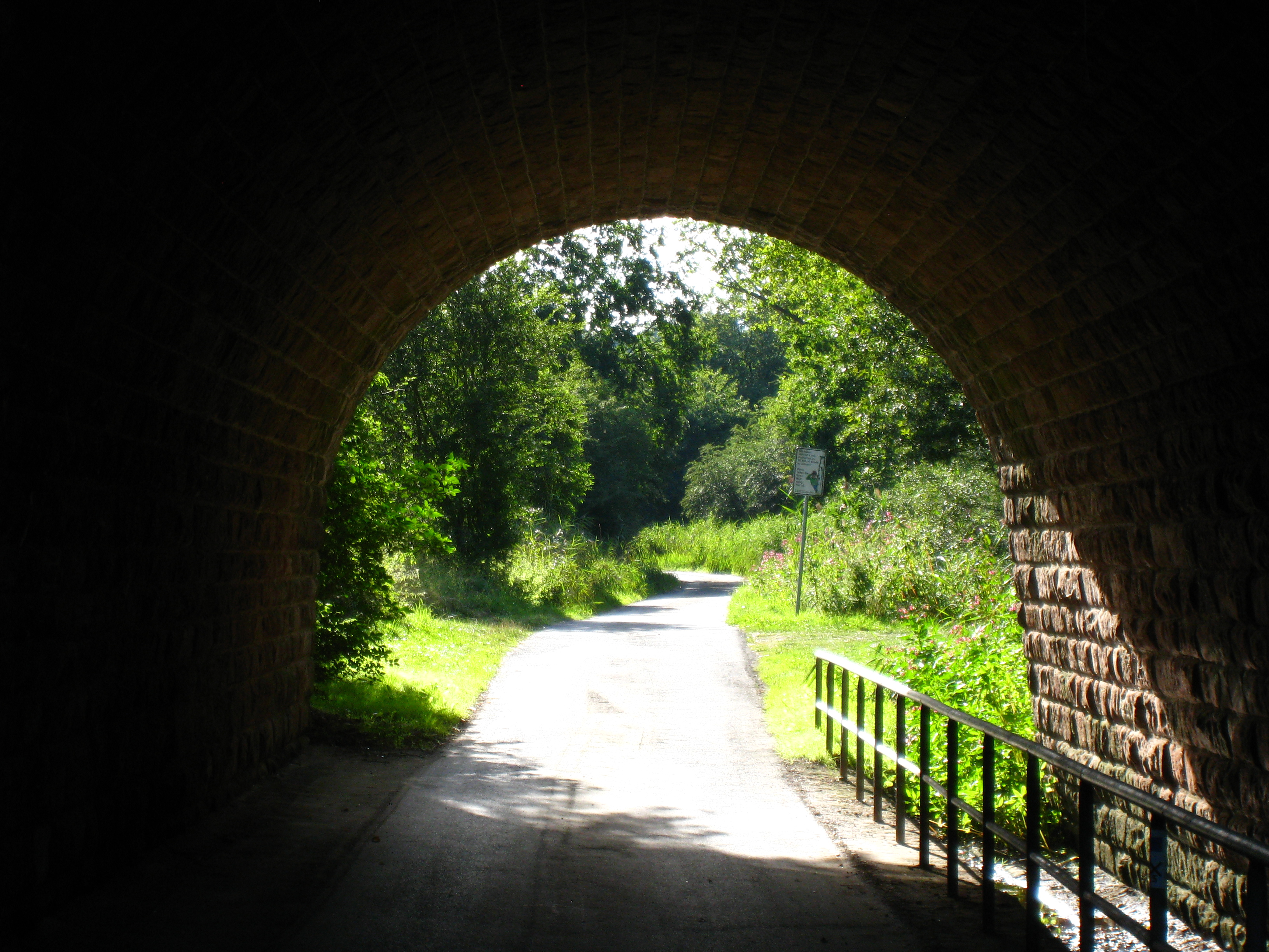 Werratal bike route close to Gerstungen, Thuringia, germany